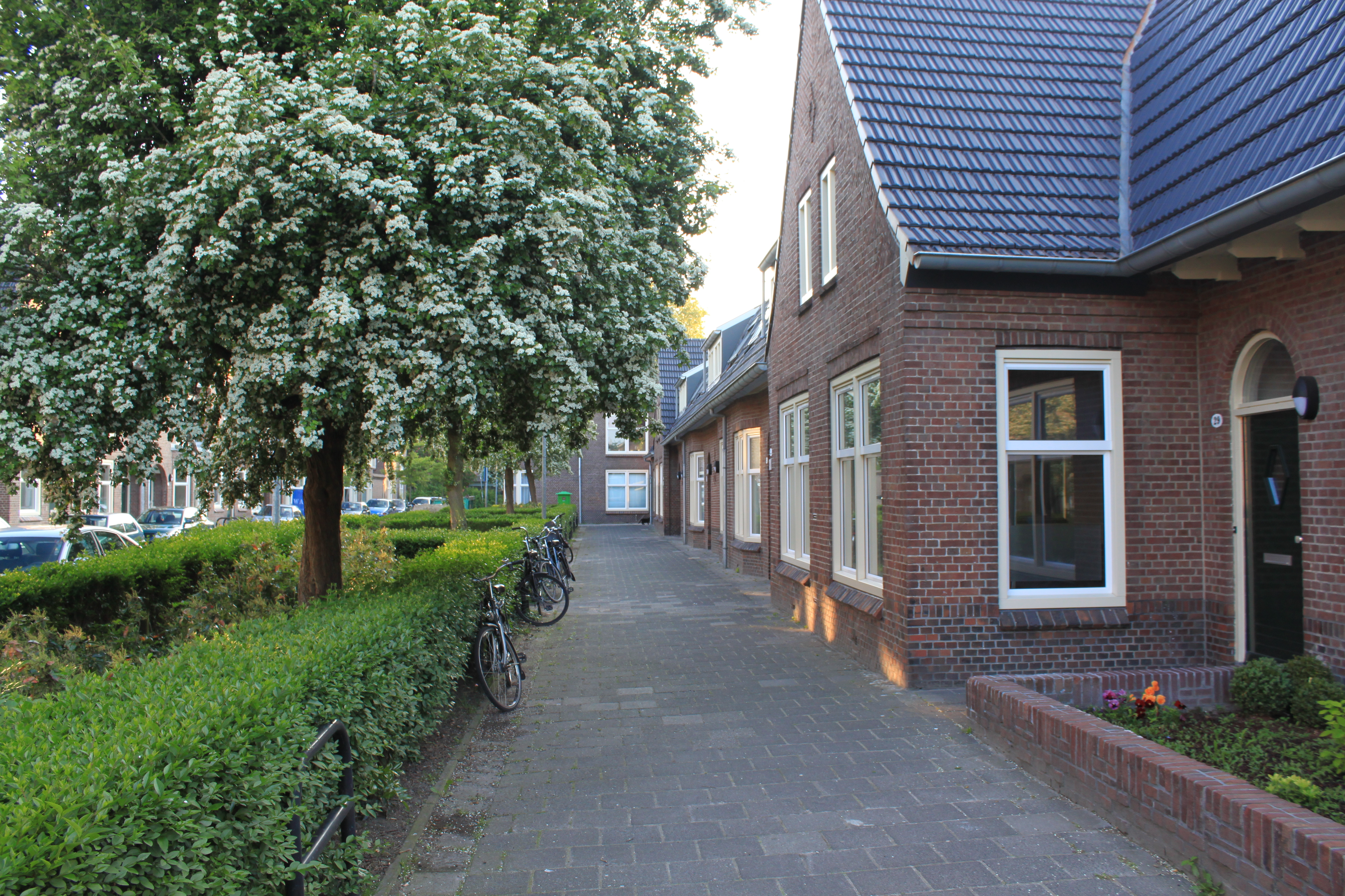 Fruitstraat in the Tuinwijk district of Groningen.